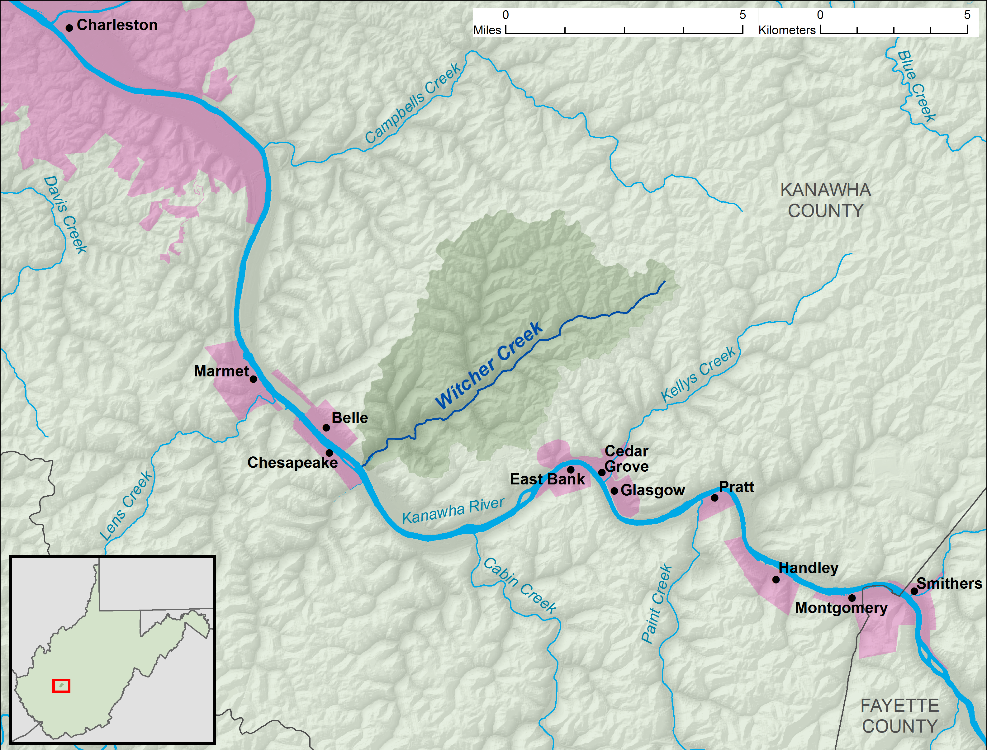 A map of Witcher Creek and its watershed (USGS HUC-12 code 050500060401), in Kanawha County, West Virginia.